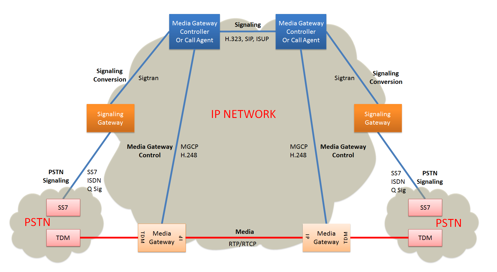 Media Gateway Controller - Coordinates setup, handing and termination of media flows at the media gateway. Signalling Gateway - SS7-IP interface, coordinates SS7 view of IP elements and Ip view of SS7 elements. Media Gateway - Terminates PSTN lines and packetizes media streams for IP transport.